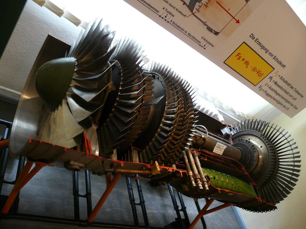 Cutaway of a soviet jet engine Tumansky R-11